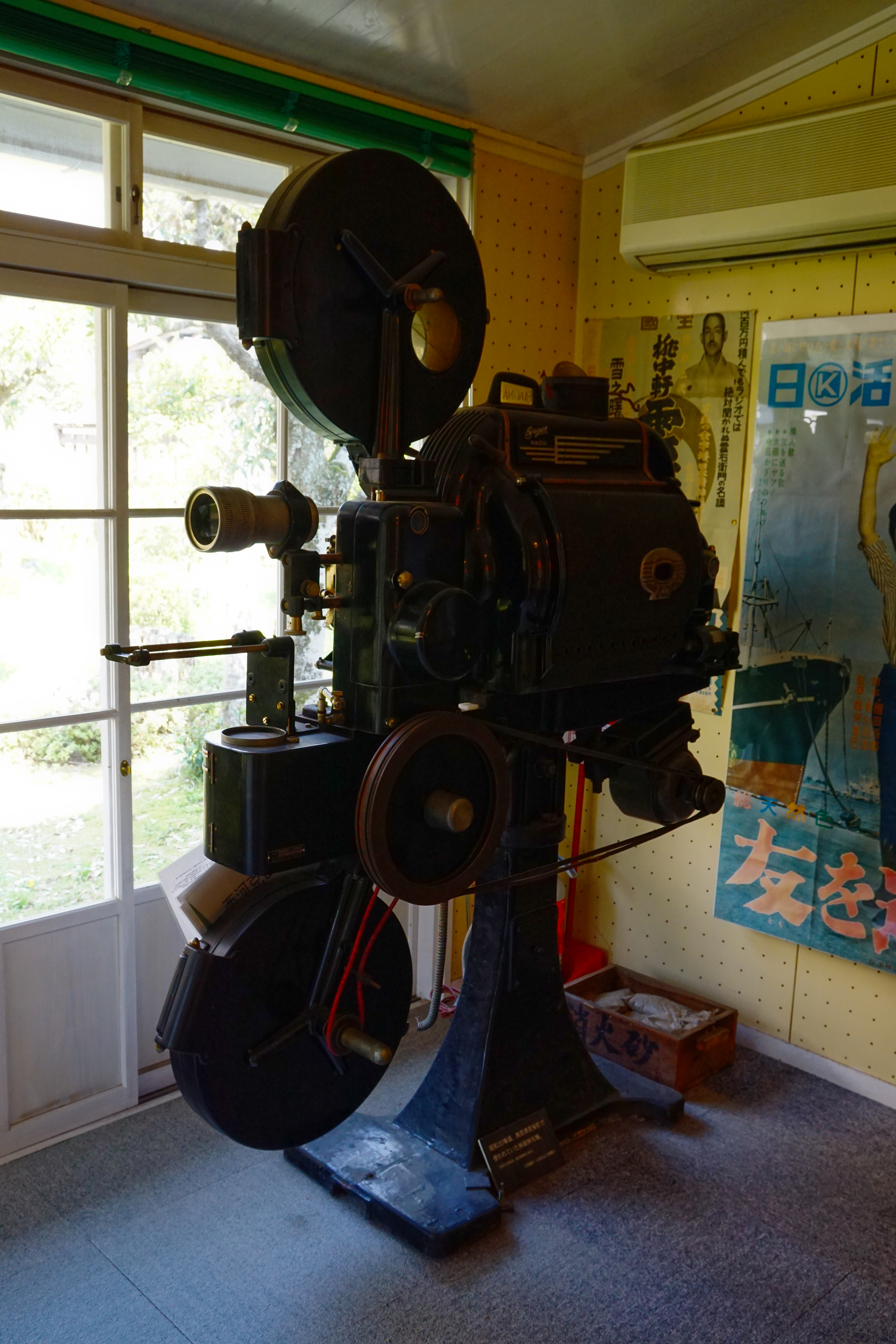 Katsumi Nishikawa Film Museum in Chizu, Tottori prefecture, Japan